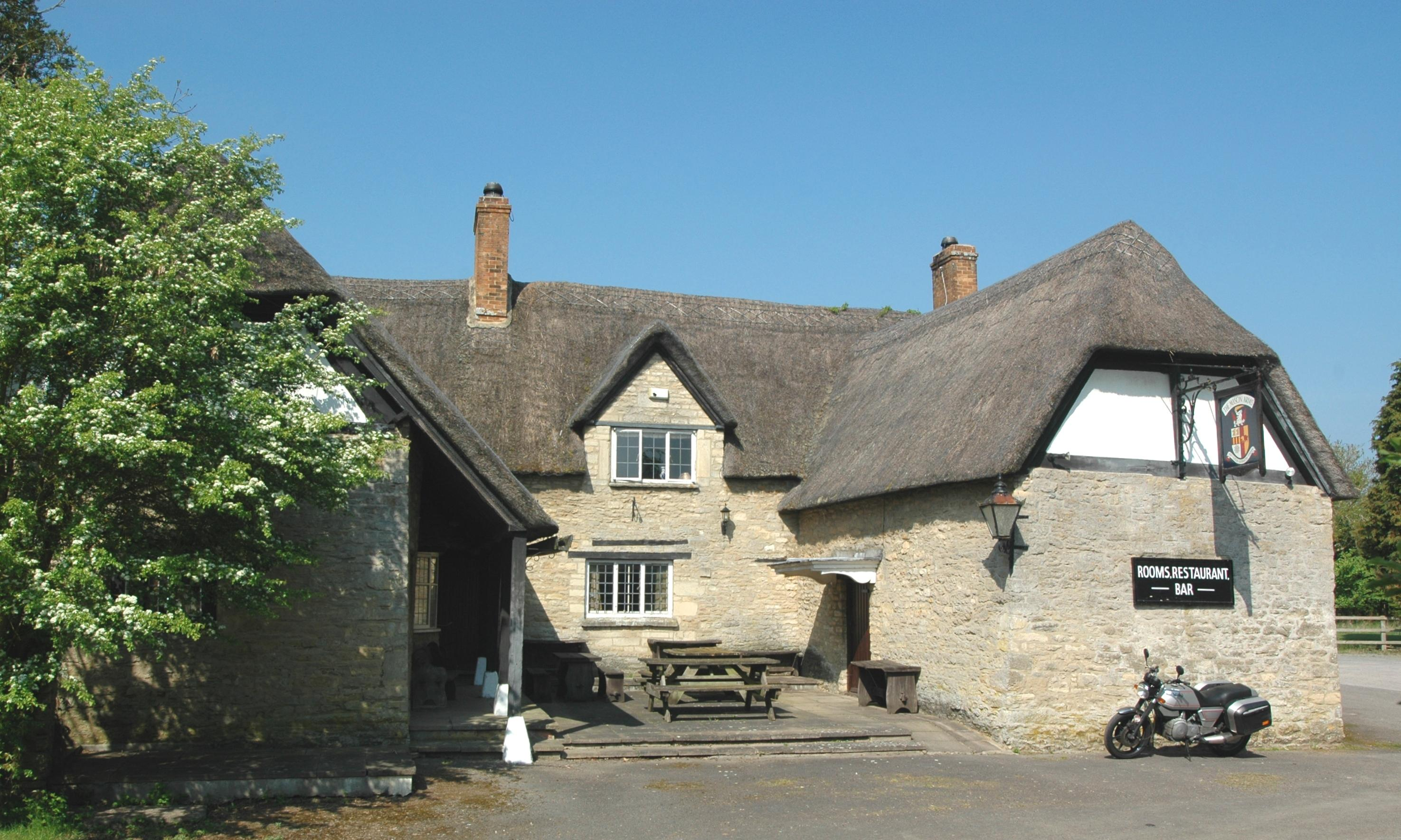 The Mason Arms public house, South Leigh, Oxfordshire, seen from the east